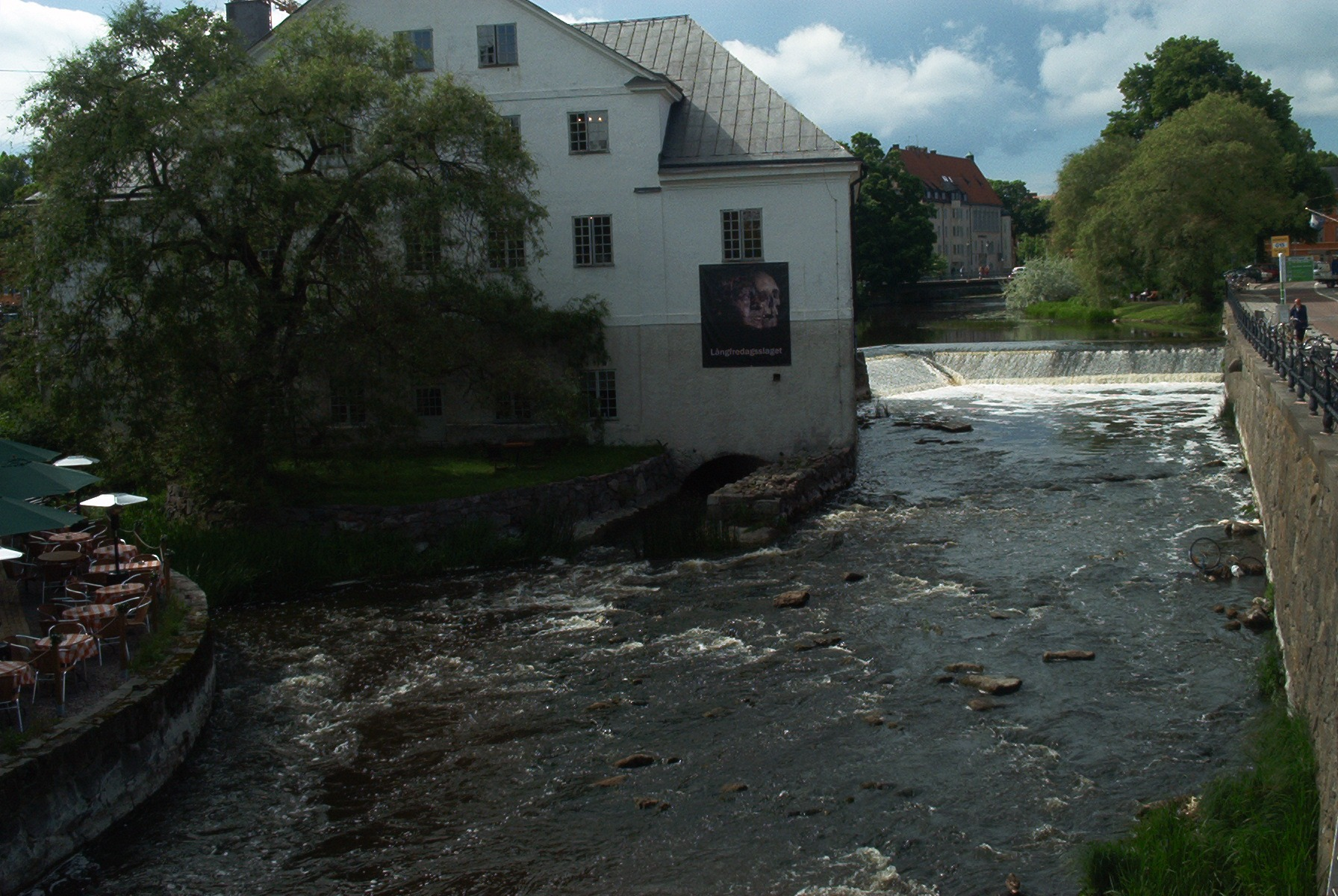 The Fyris River in Uppsala. The old mill of Uppsala University, now the regional museum. The exterior was used in Ingmar Bergman's film Fanny and Alexander, where it served as the bishop's residence.